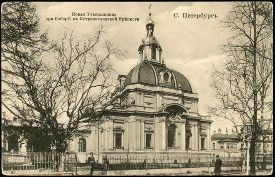 Saint Petersburg (Russia), Peter and Paul Fortress. Grand Ducal Burial Vault.